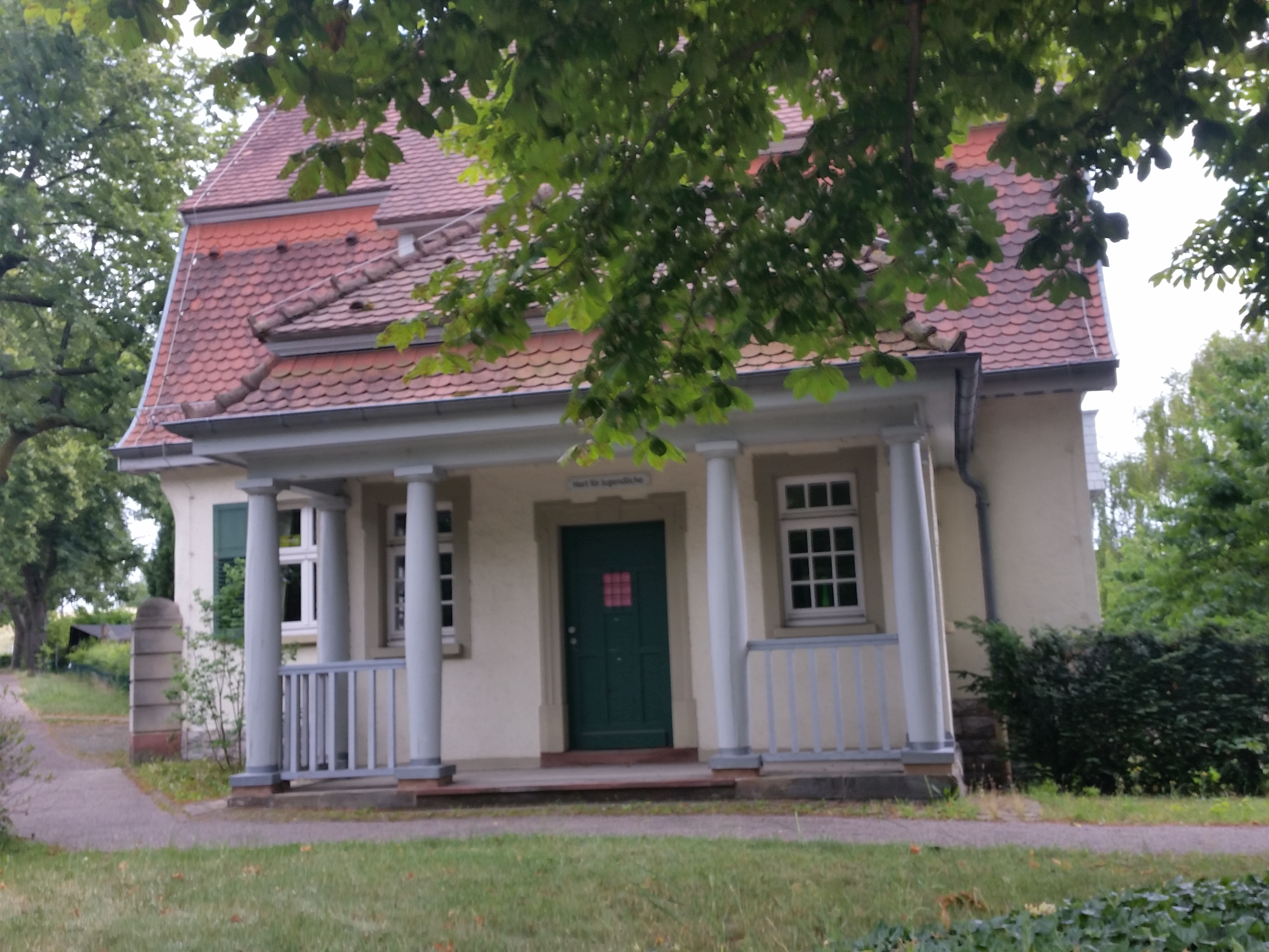 Psychiatrisches Zentrum Nordbaden (PZN) in Wiesloch, Baden-Württemberg. Psychiatric Center in Wiesloch, Baden-Württemberg, South-East Germany.